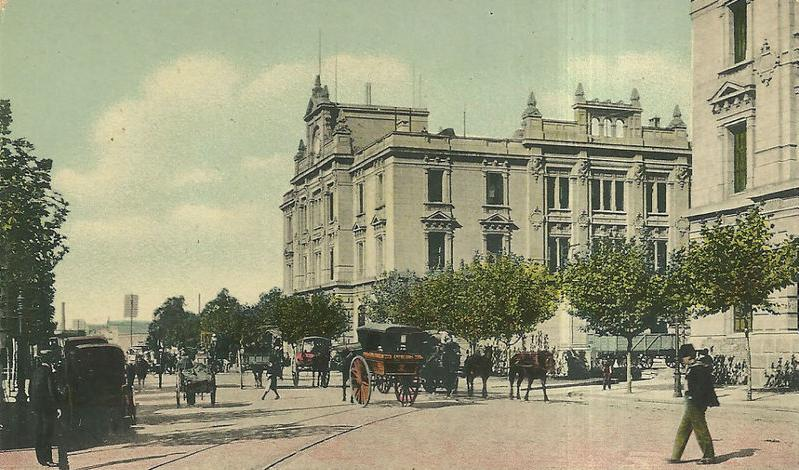 The Once de Septiembre terminus station building, view from Pueyrredón avenue.